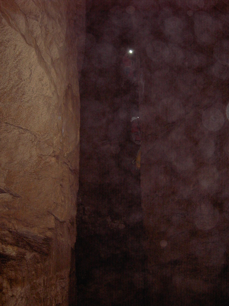 Beni and Michi bolt-climbing in a Schlot which is not yet known (Hirlatz Cave).